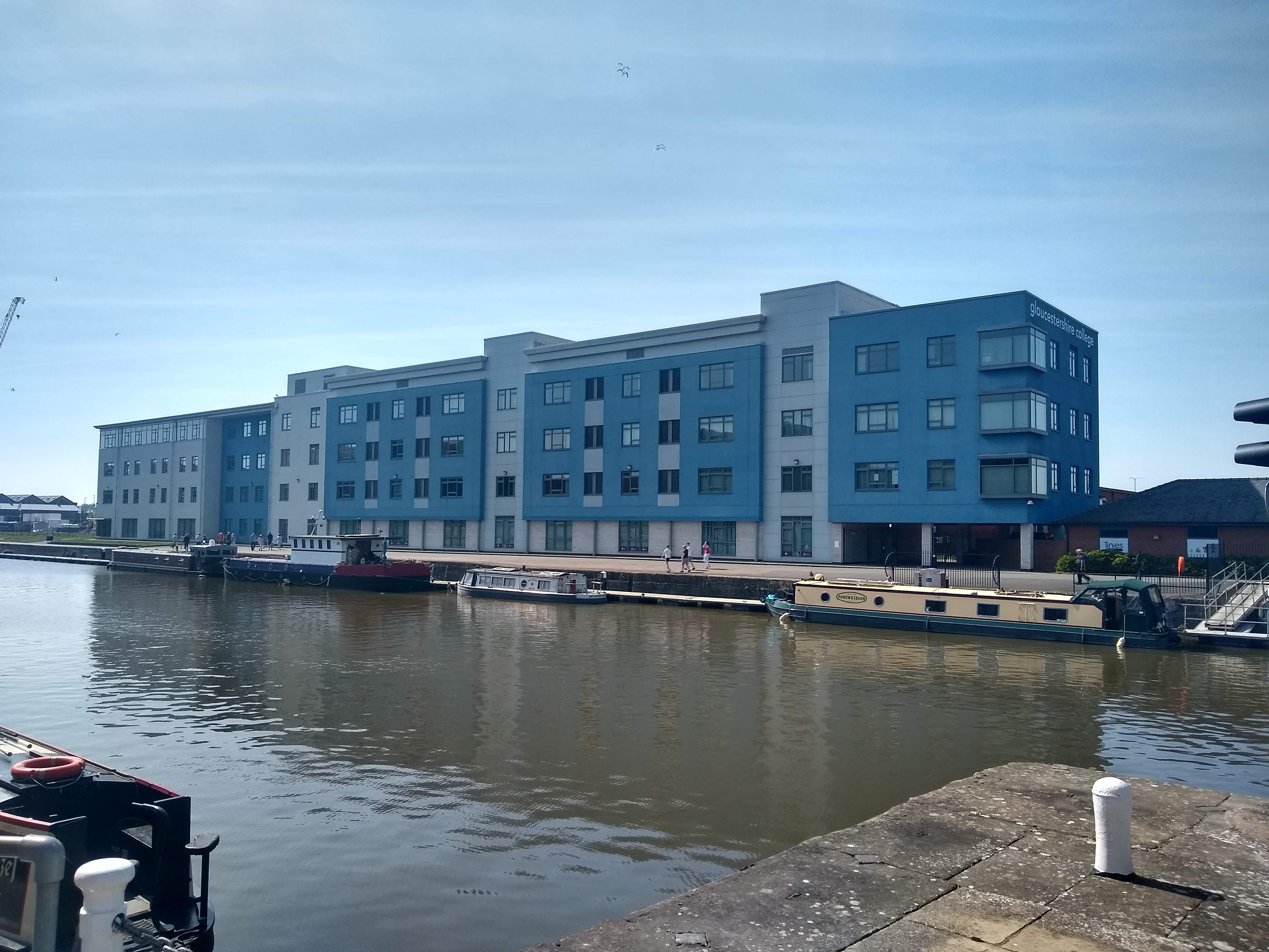 Gloucester